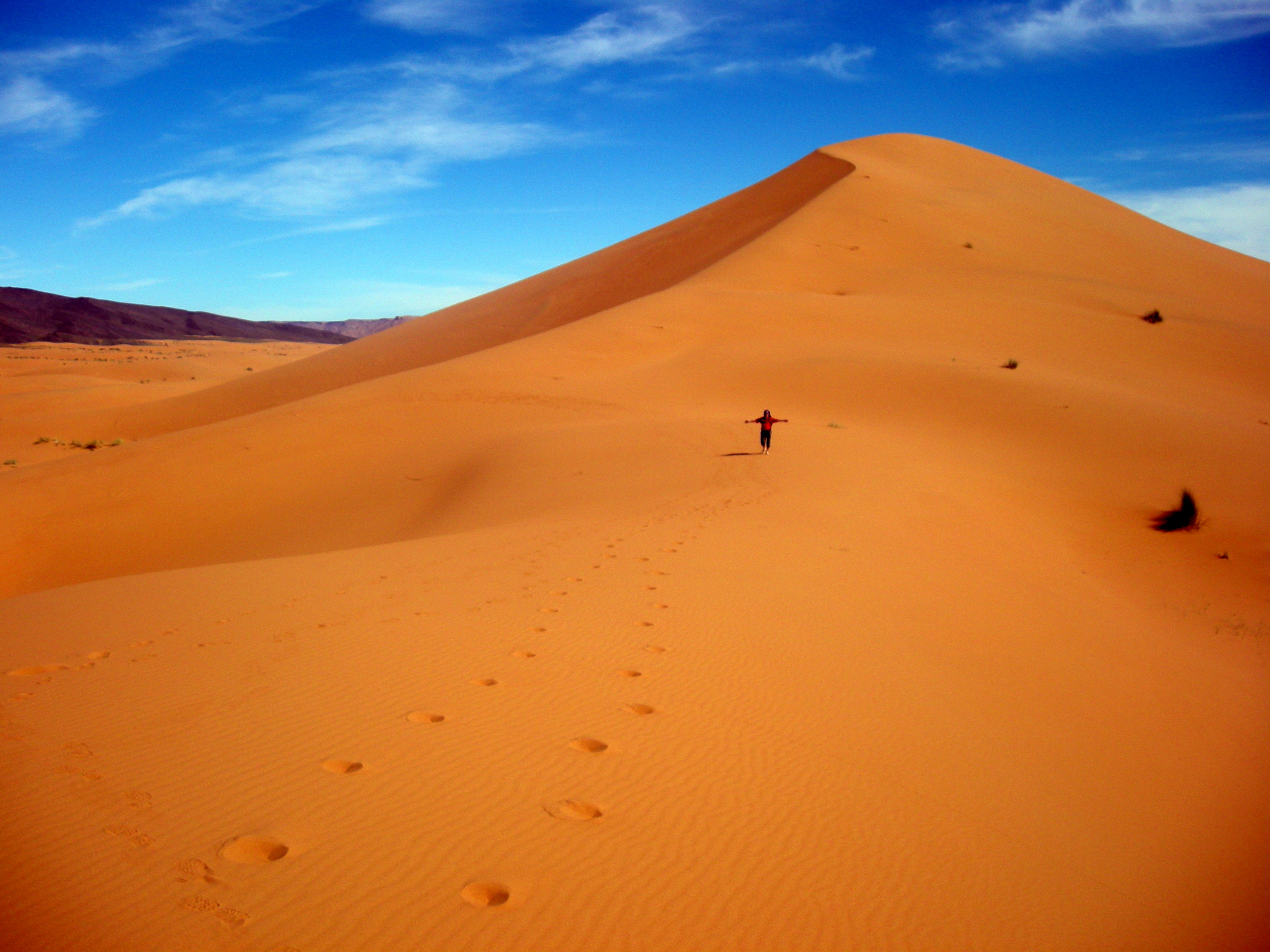 Dunes (sandhills) in the east of Merzouga, Morocco near the border to Algeria. Sunrise in Sahara desert. Blue sky with clouds, orange sand, footprints and a person with outstretched arms are there.